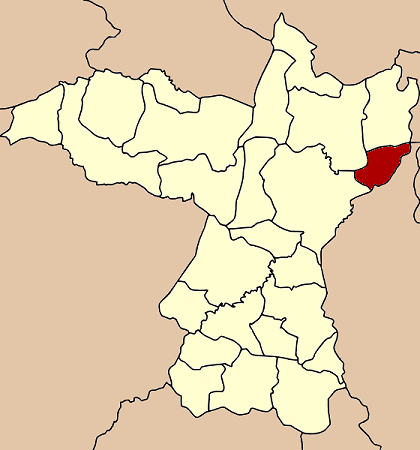 Map of Khon Kaen Province, Thailand, highlighting the sub-district Sam Sung (กิ่งอำเภอซำสูง)